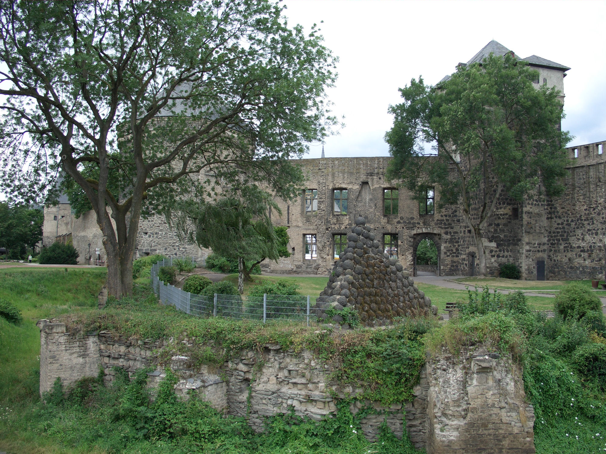 Andernach castle